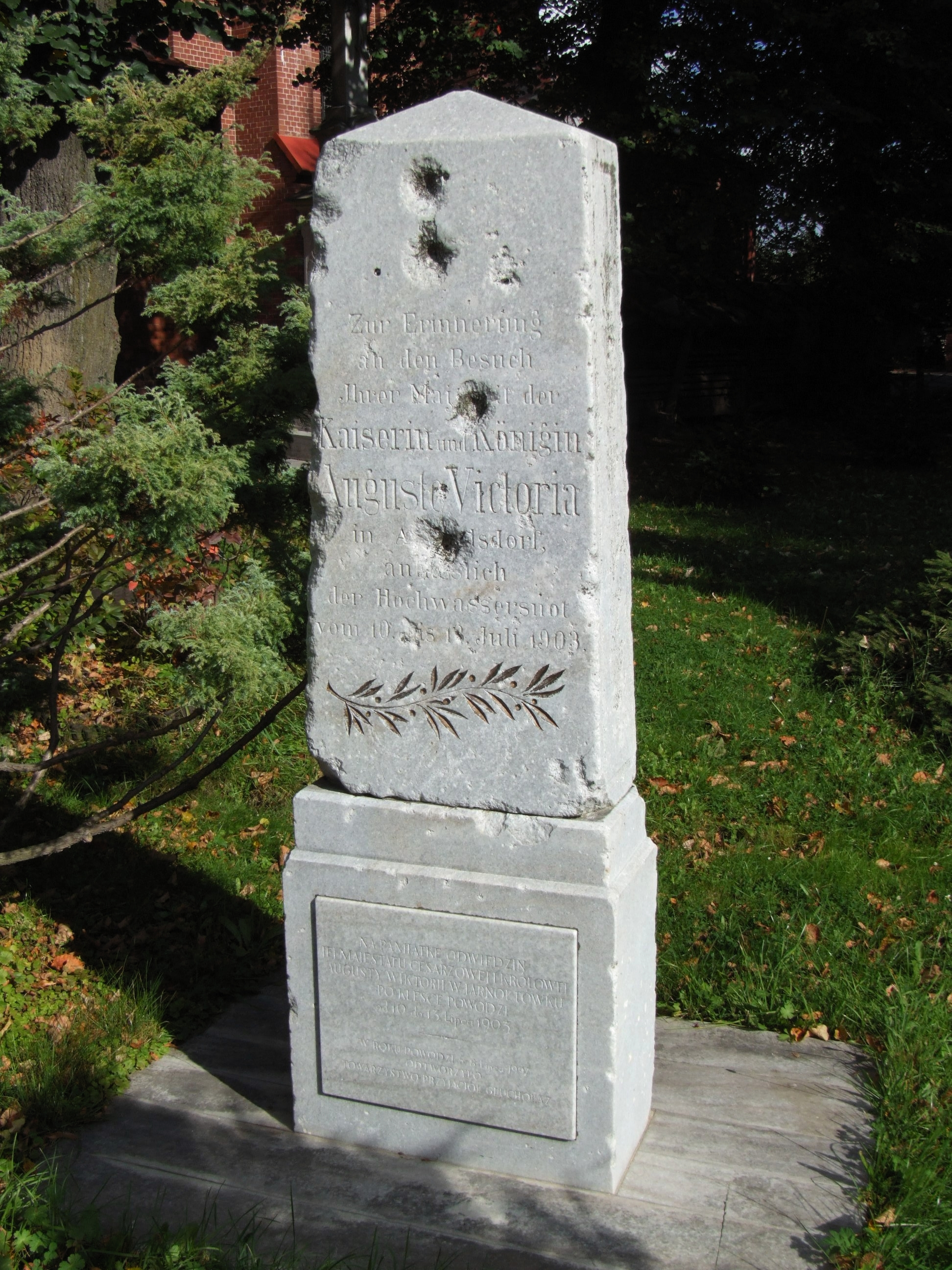 Empress Augusta Victoria monument, Jarnołtówek (Arnoldsdorf), Silesia